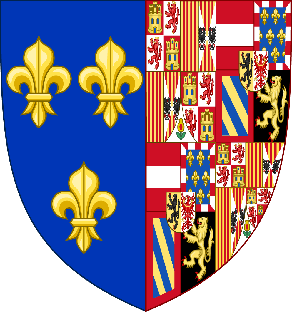 CoA of Eleanor of Austria, wife of Francis I. To improve if necessary.